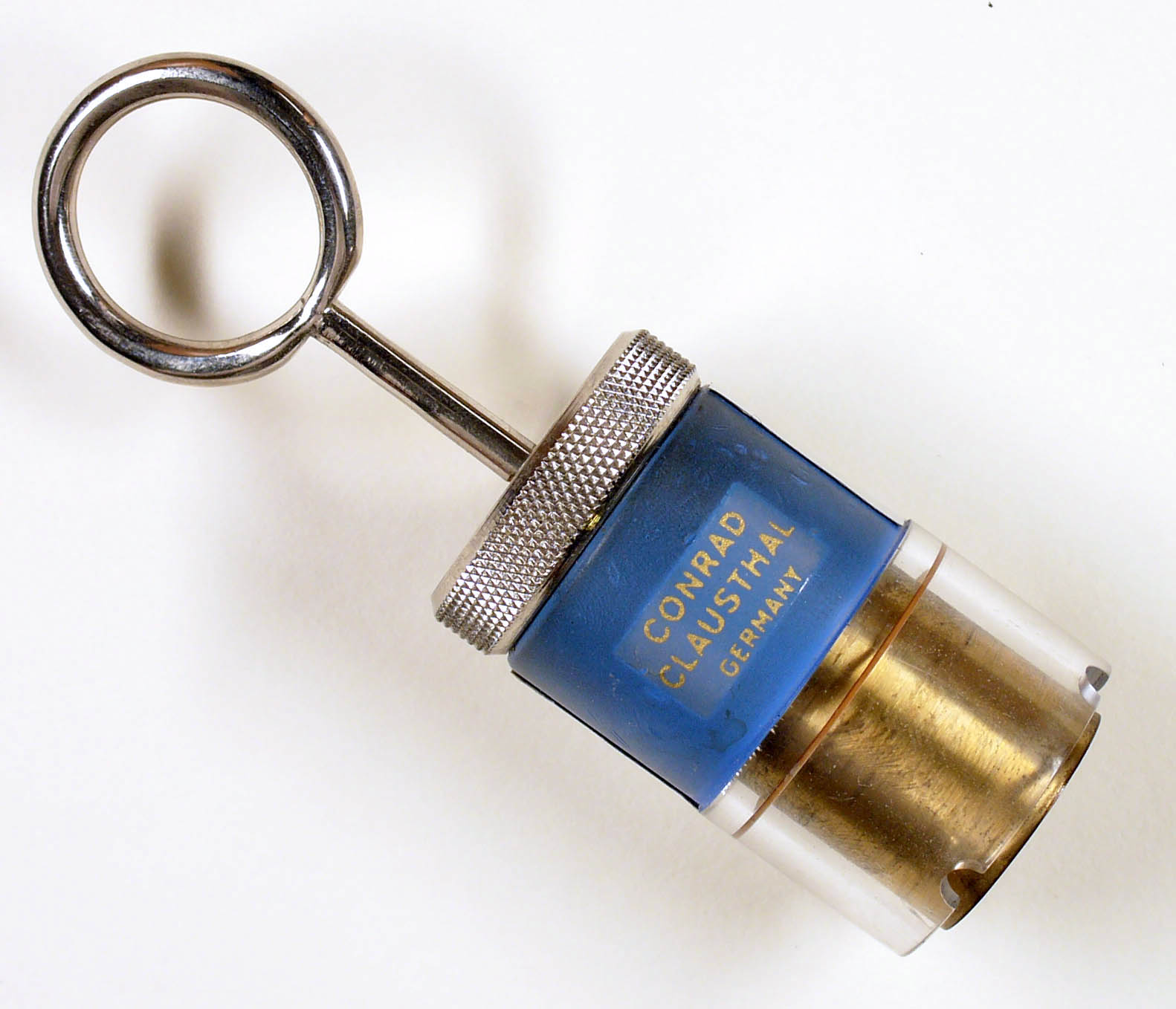 Magnetic hand sparator for heavy mineral investigations